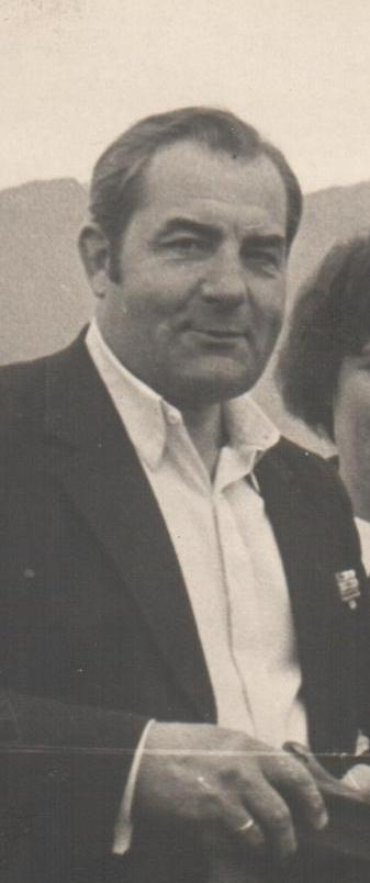 Direktor Tuloma Farm